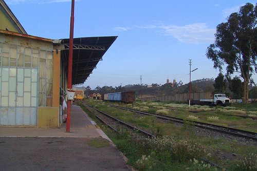 Asmara railway station, Eritrea.